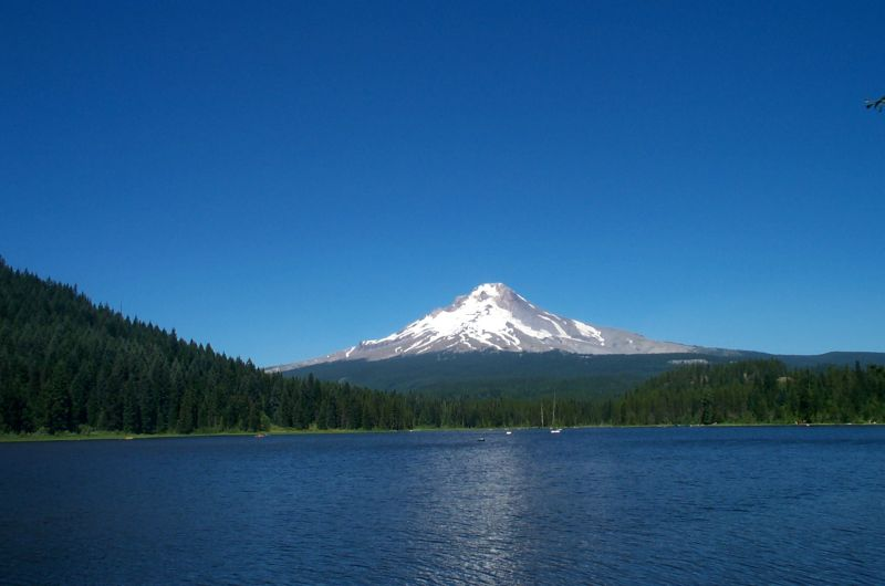 View of Mt. Hood from Trillium Lake.Mt. Hood